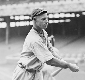 Picture of Eugene Franklin "Bubbles" Hargrave in 1914.